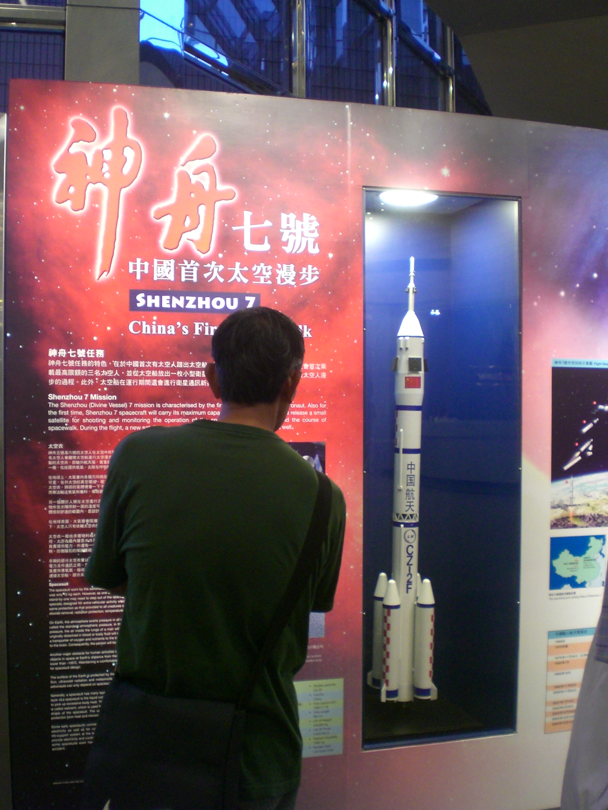 尖沙咀香港太空館室內 - 神舟七號飛船